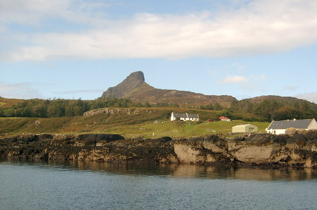 Isle of Eigg. Leaving Eigg aboard the M.V.Sheerwater, heading for the Isle of Muck.